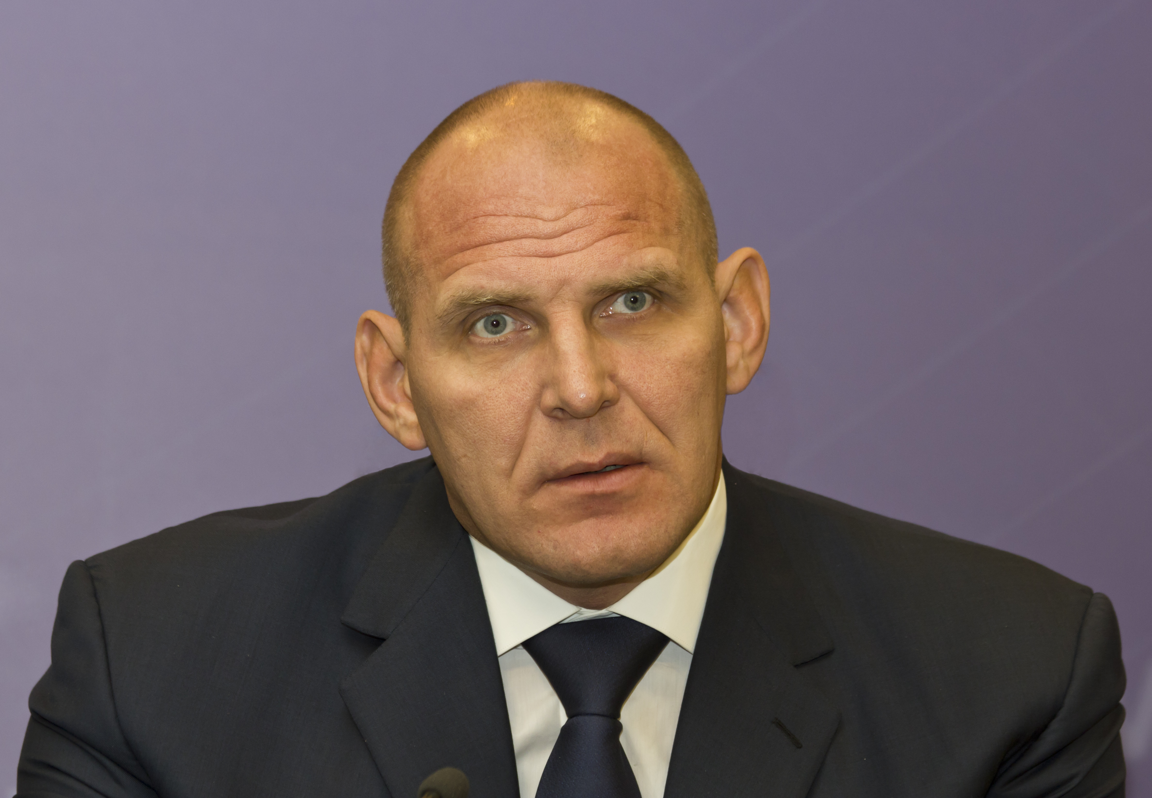 Alexander Karelin, Russian politician, and former wrestling champion. Taken at Press center of RIAN, Moscow.